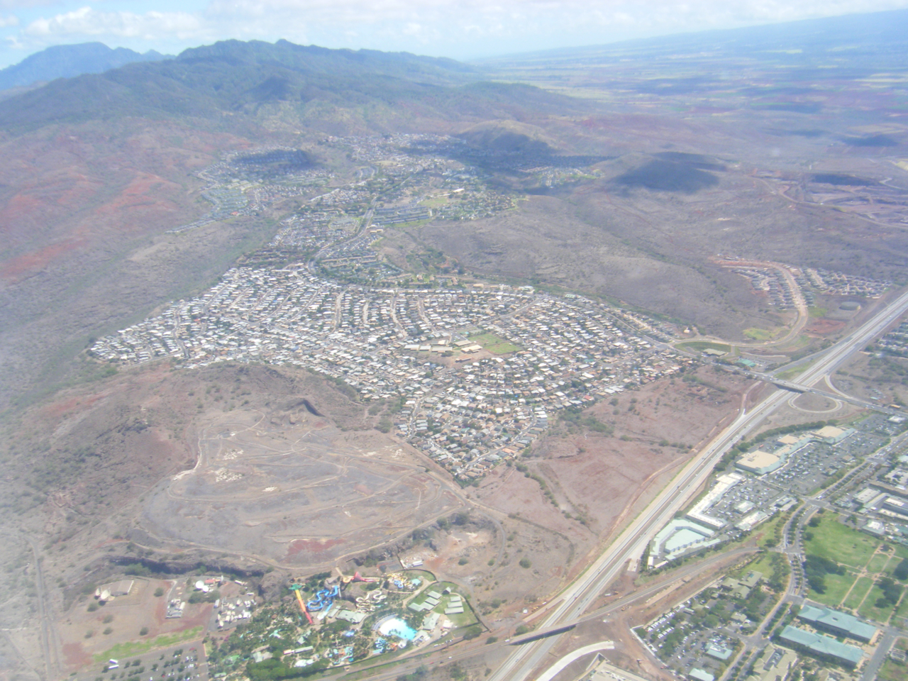 Makakilo, Oahu, Hawaii from air. Route: Lihue, Kauai to Honolulu on go! Air.